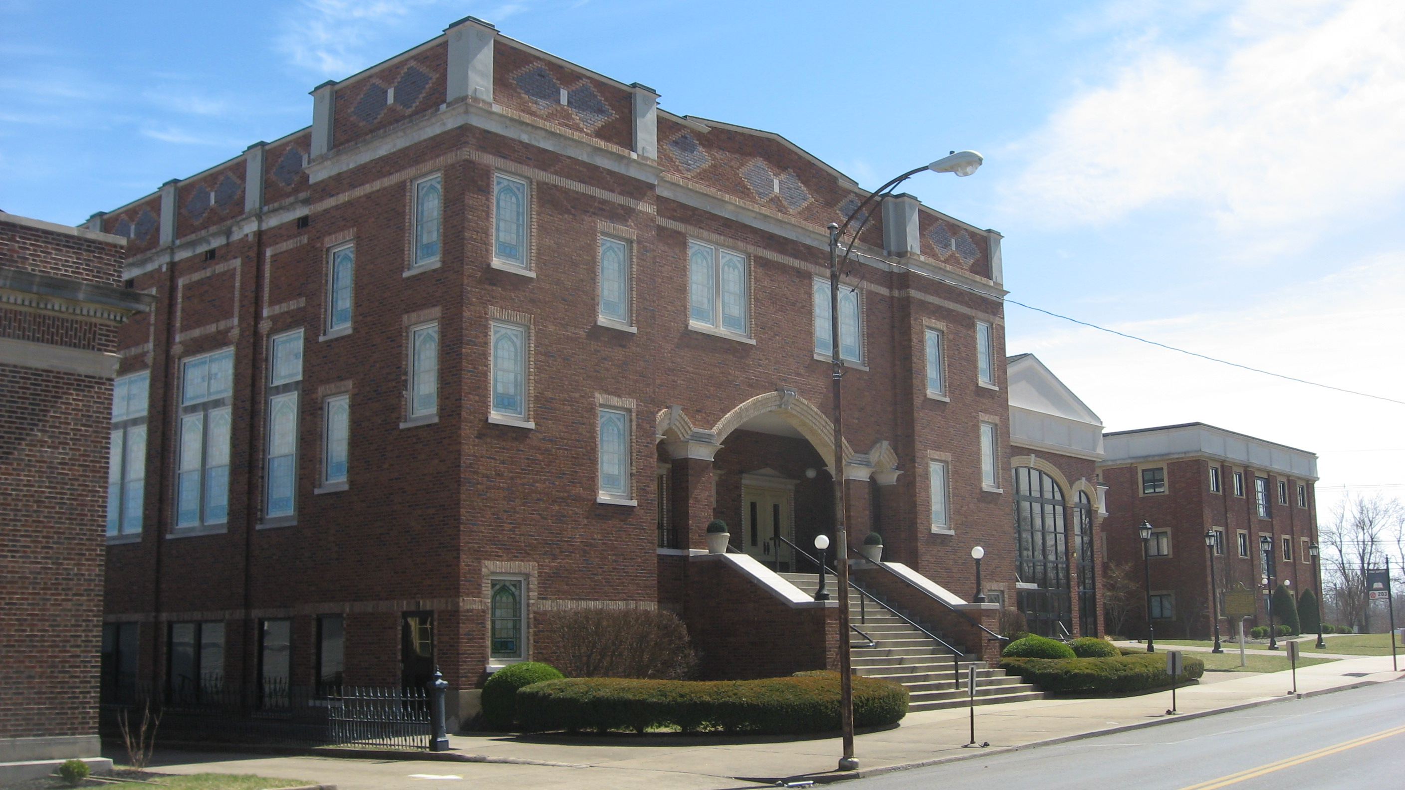 Front of the First Baptist Church, located at 203 S. Fourth Street (Kentucky Route 121) in Murray, Kentucky, United States. Built in 1928, it is listed on the National Register of Historic Places.